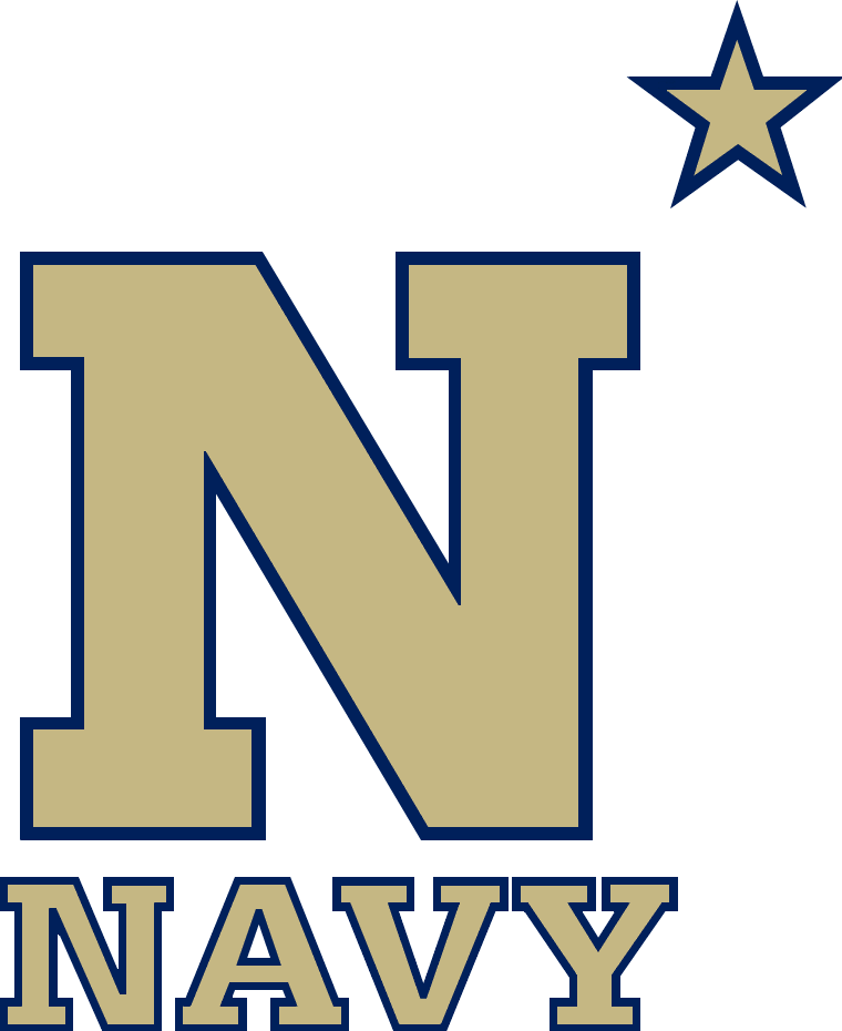 The United States Naval Academy Athletics logo.